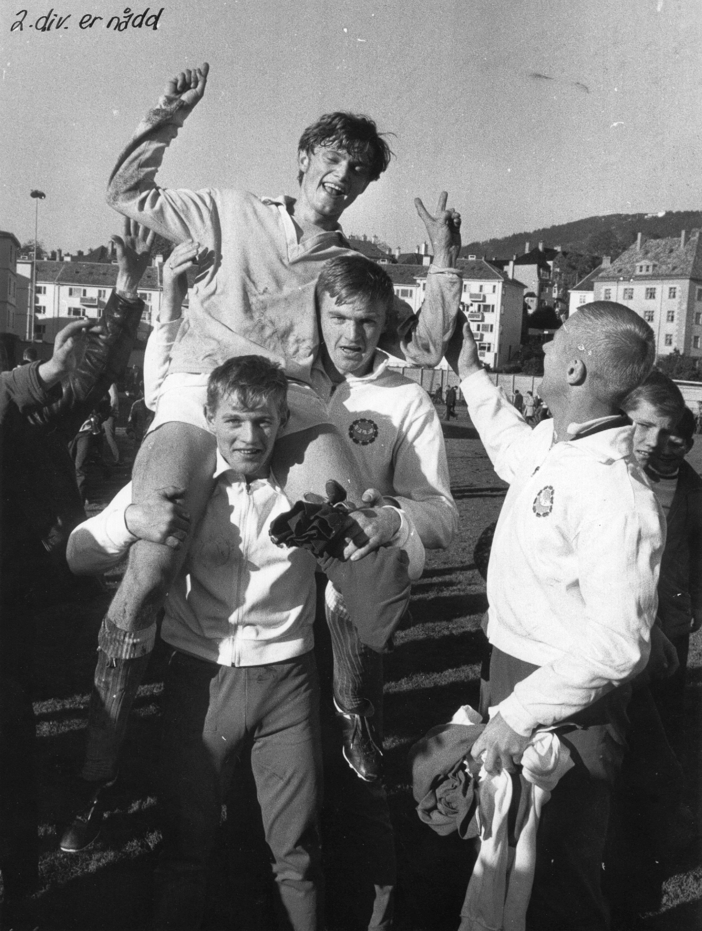 Ulf beats Varegg to secure promotion to level 2, 1969